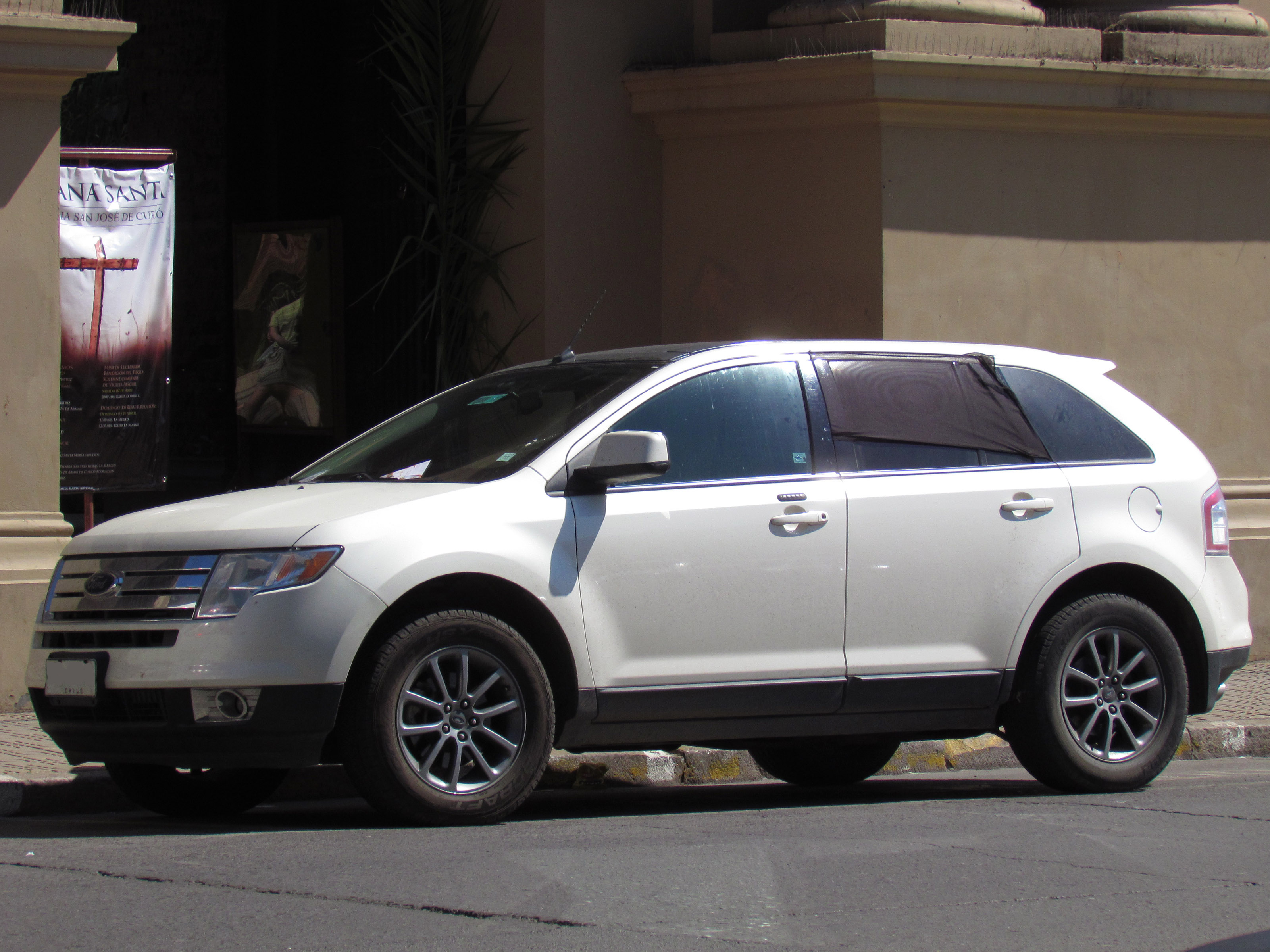 Ford Edge SEL AWD 2009